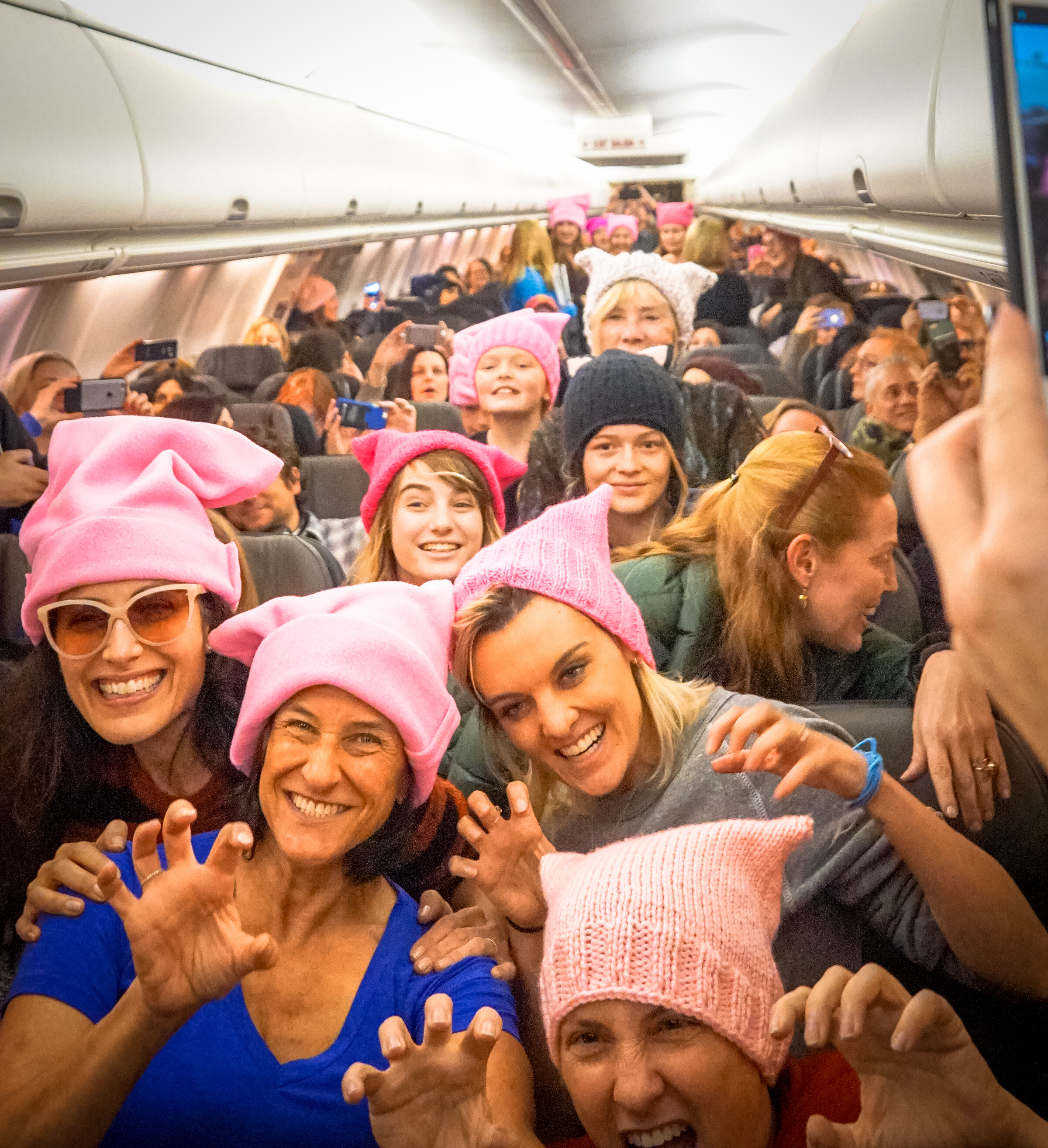 I love America - the place where people come together around a common cause and have some fun at the same time, all on their way to the best city in the world - Washington, DC USA :).